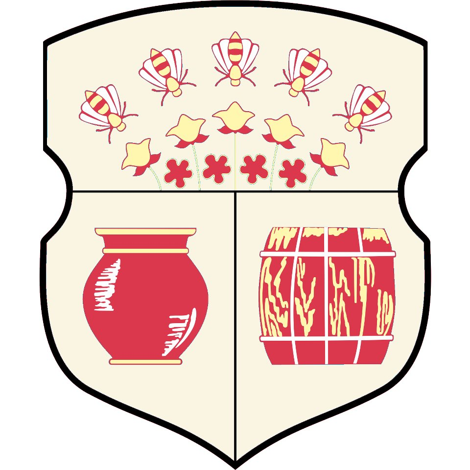 Coat of arms of Šacak, a village in Pukhavichy Raion (Puchavičy District), Belarus